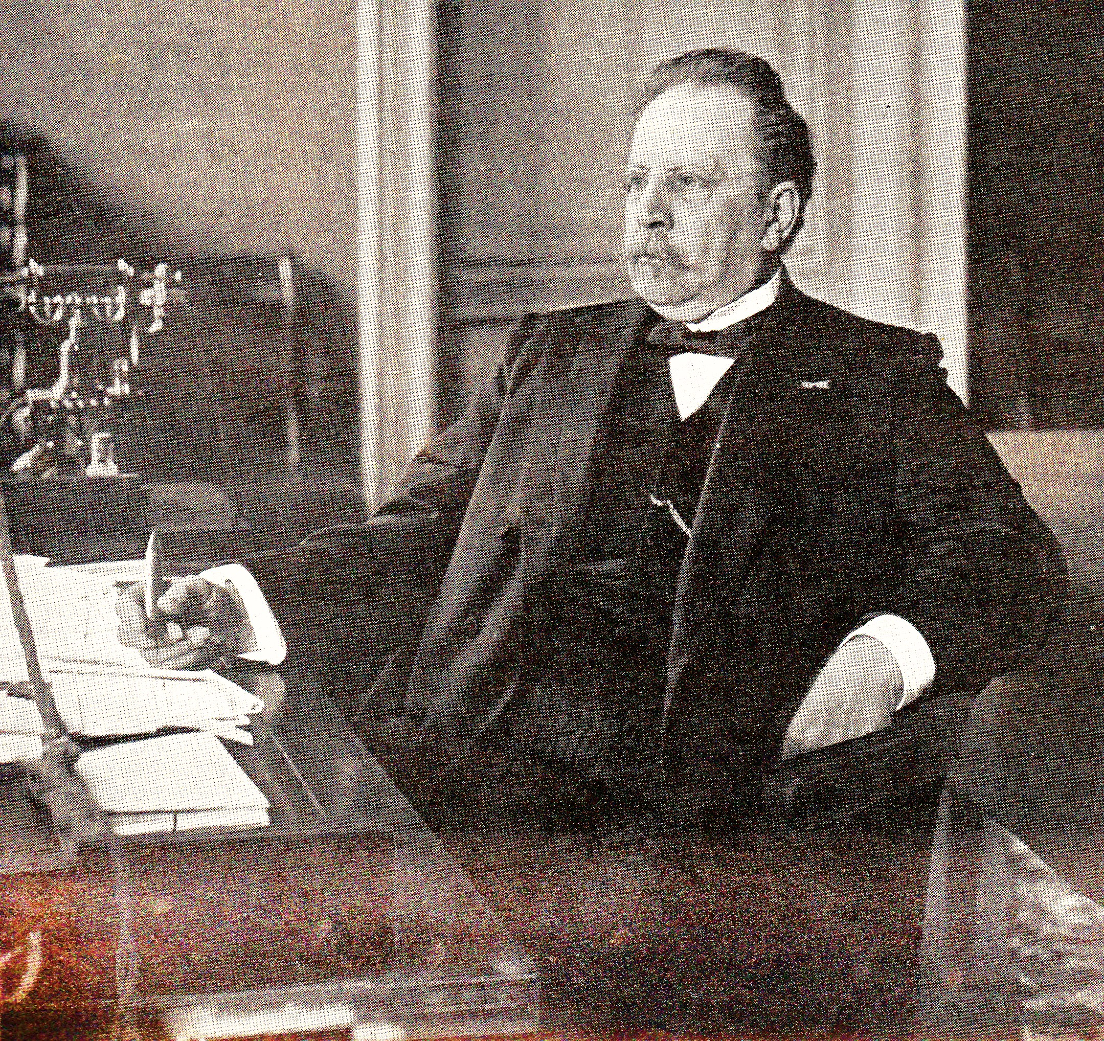 Dr. C. Kerbert